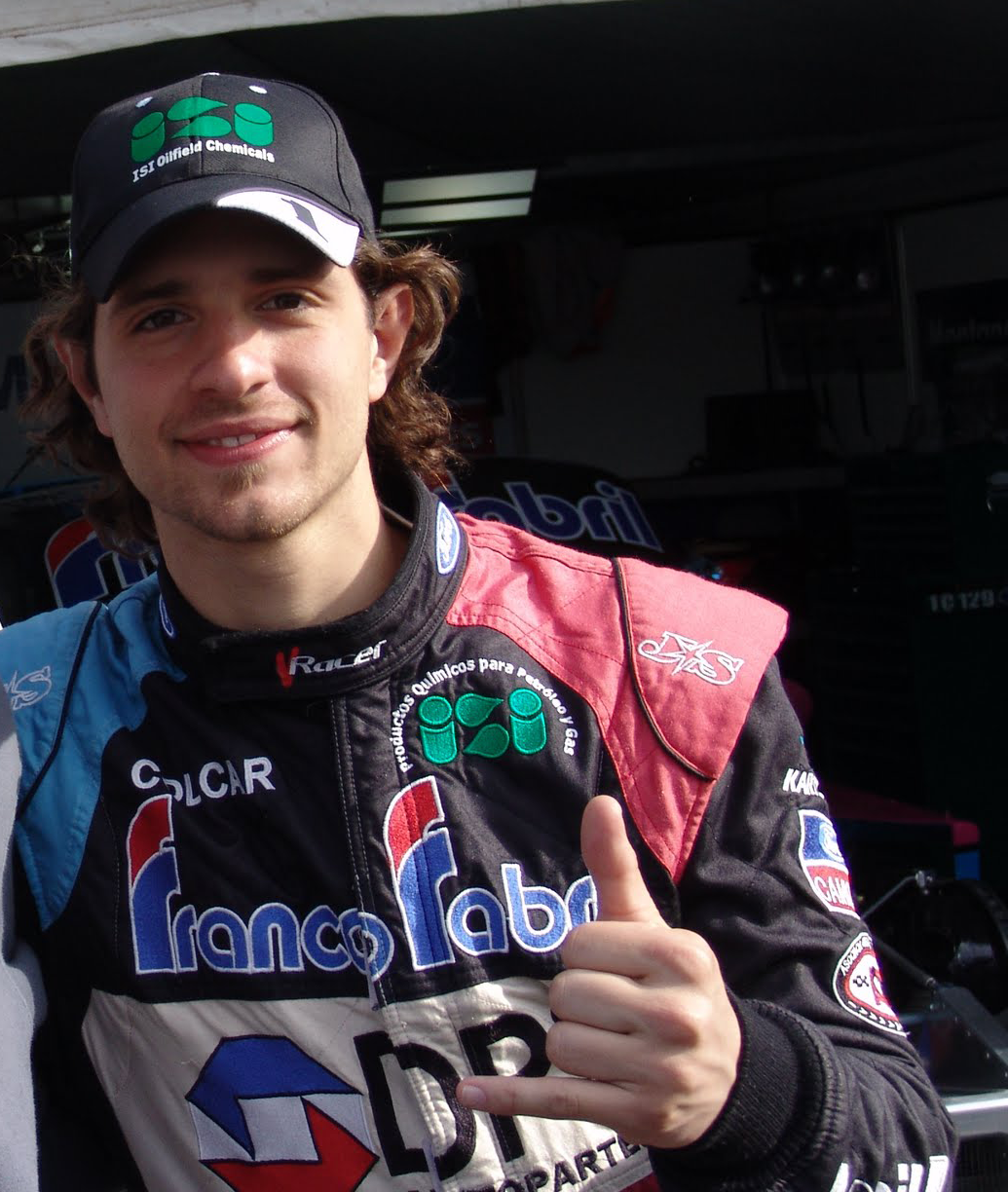 Argentinean car driver Mauro Giallombardo at Autodromo General San Martin during 2013 Turismo de Carretera Championship.